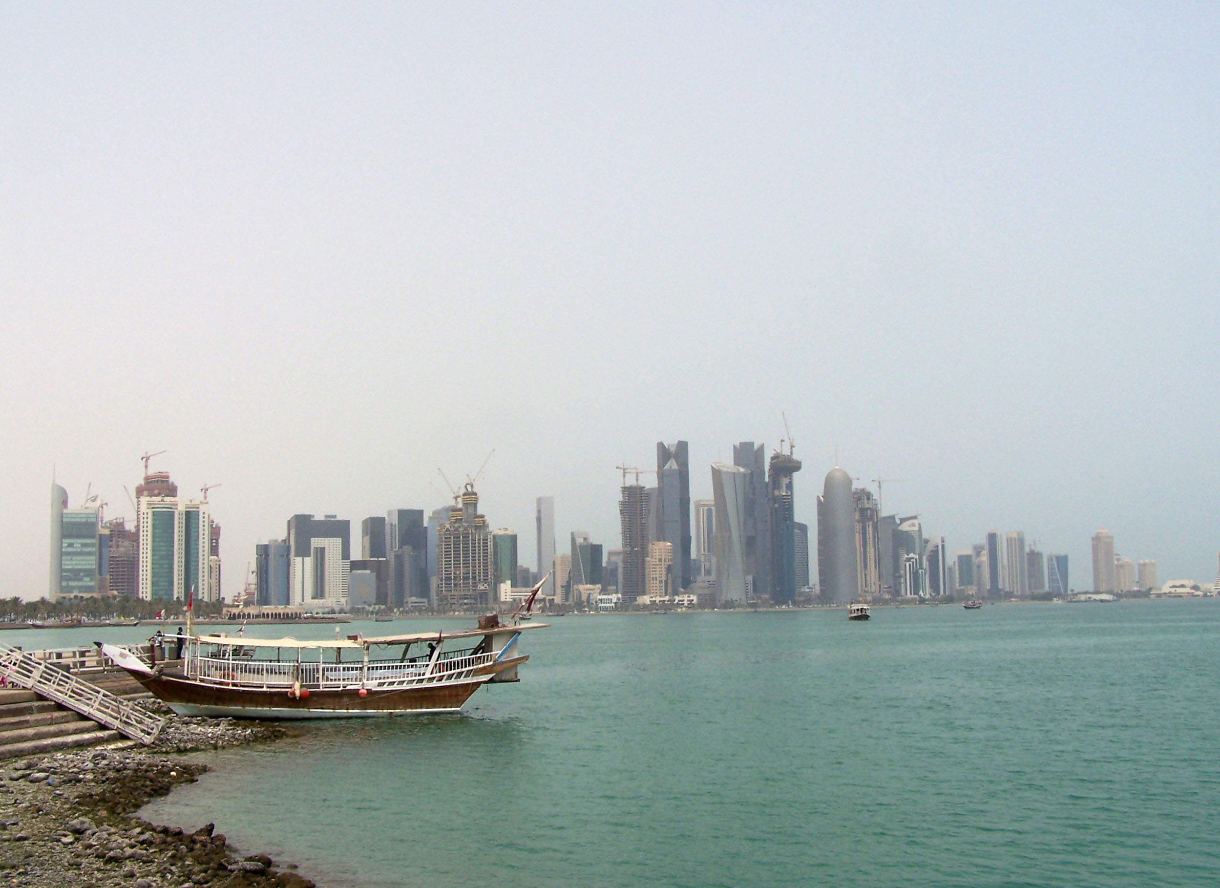 Skyline of Doha, Qatar